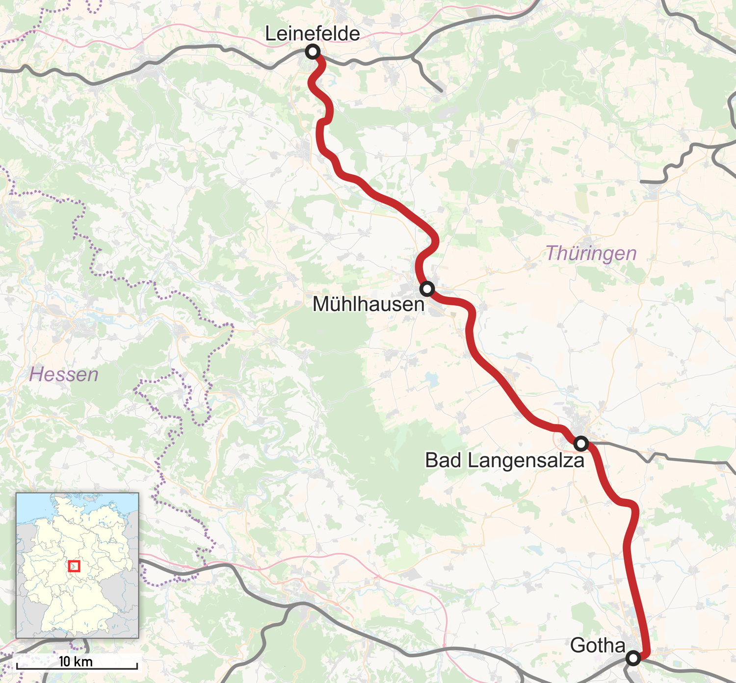 Outline map railway Gotha–Leinefeldeh